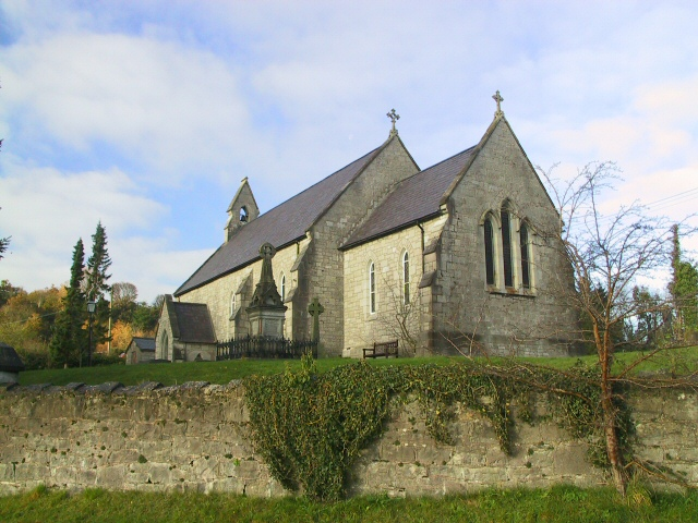 St.James Church, Prion. The Parish church of St.James at Prion, in the diocese of St.Asaph.